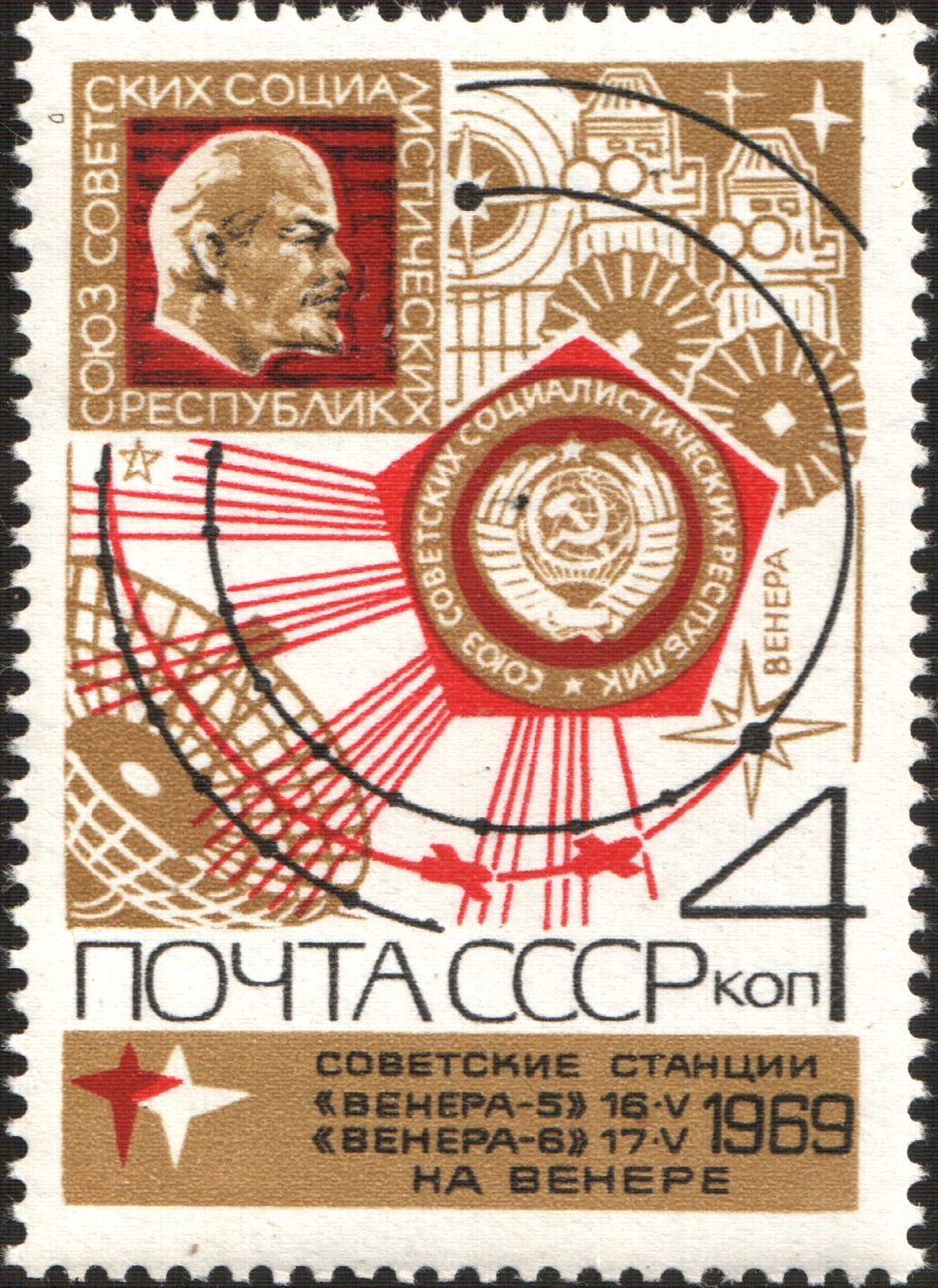 USSR stampː USSR Emblems Dropped on Venus, Radio Telescope and Orbits. Seriesː Space Exploration